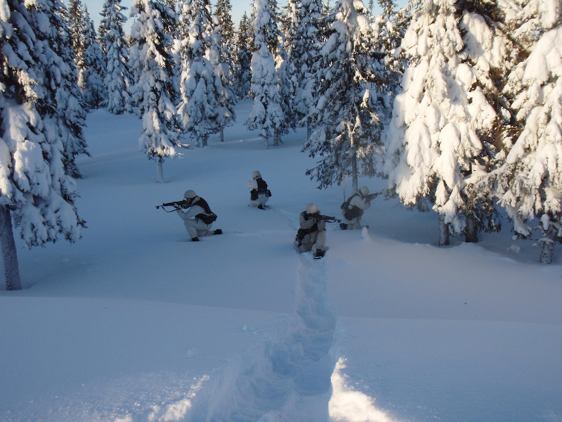 Swedish Arctic Rangers.